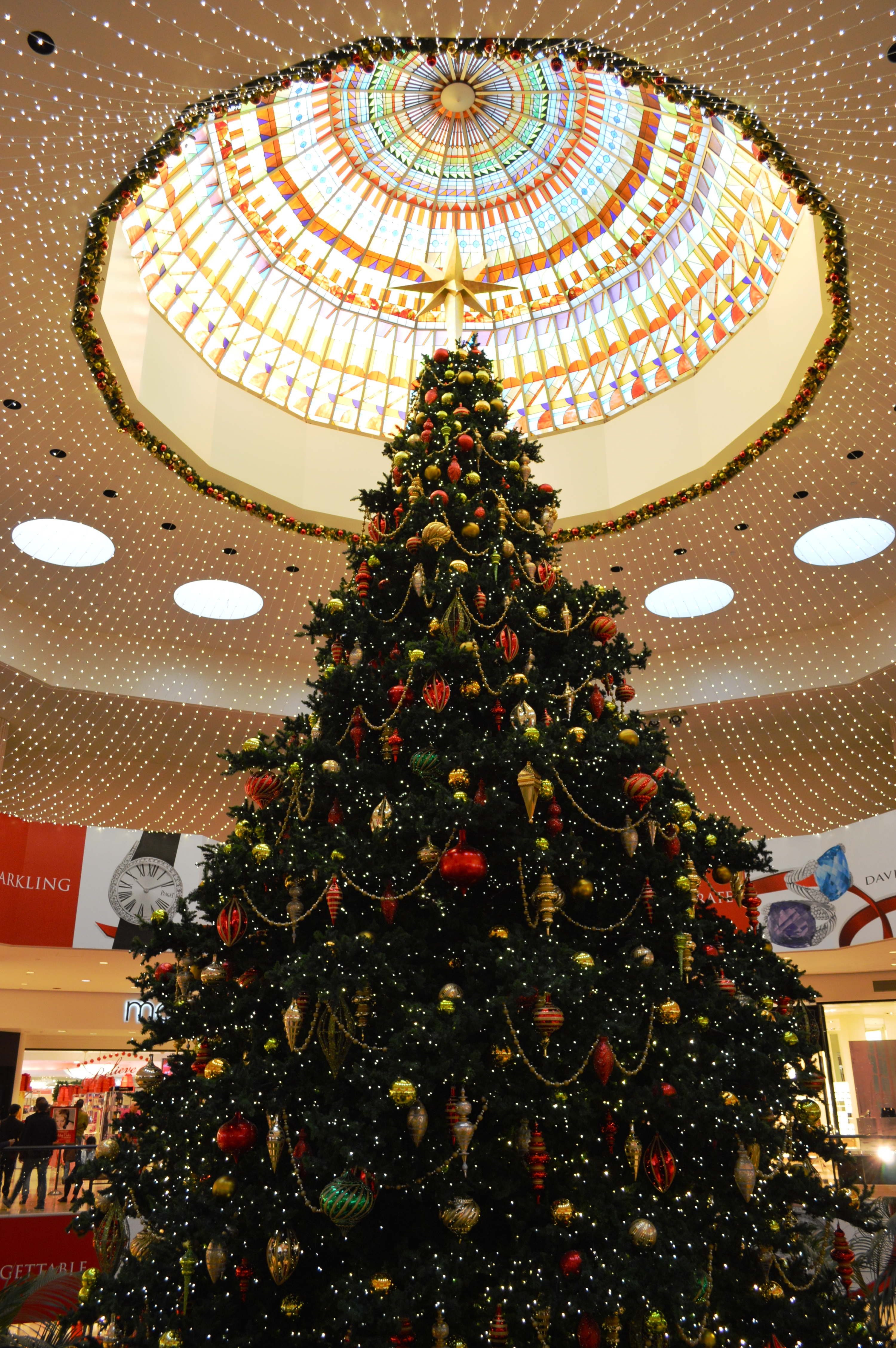 Christmas tree in Jewel Court of South Coast Plaza (SCP) in Costa Mesa, California, U.S.A. There was another SCP Christmas tree outside (behind the Westin South Coast Plaza across Bristol Street), which was 96 feet (29 m) tall. To me, this indoor tree looked taller, but it may have been an optical illusion. As a comparison, Fashion Island's Christmas tree for 2013 was 90 feet (27 m) tall.